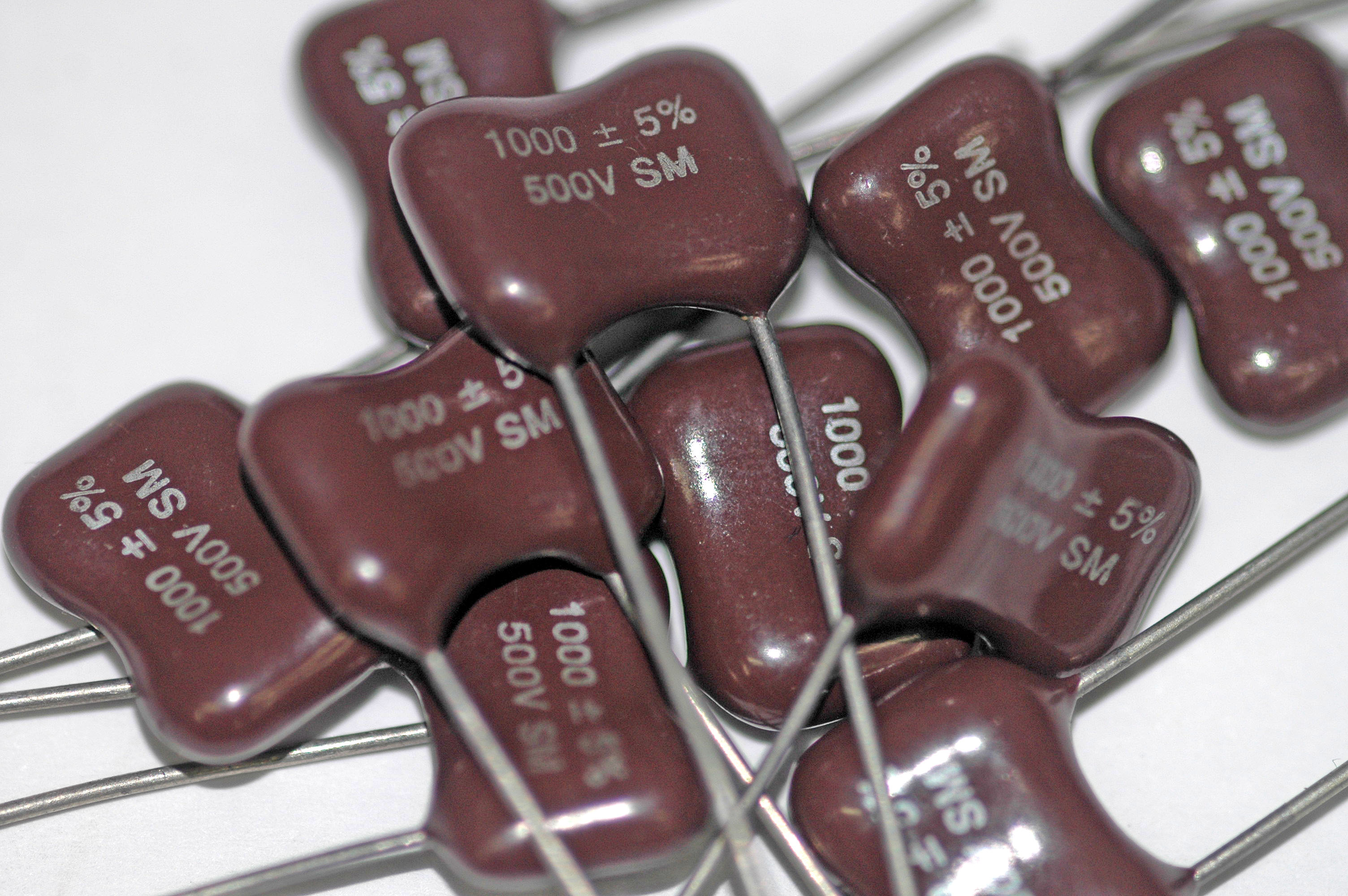 A lot of silver mica capacitors rated at 1nF x 500V